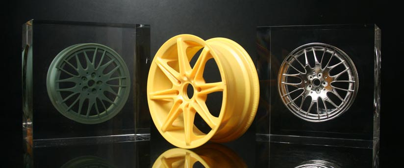 Acrylic embedments 3d-print encapsulation by Midton Acrylics